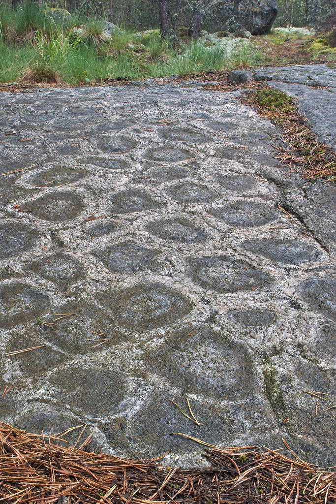 Orbicular rock in Nuuksionpää, Espoo (Finland).